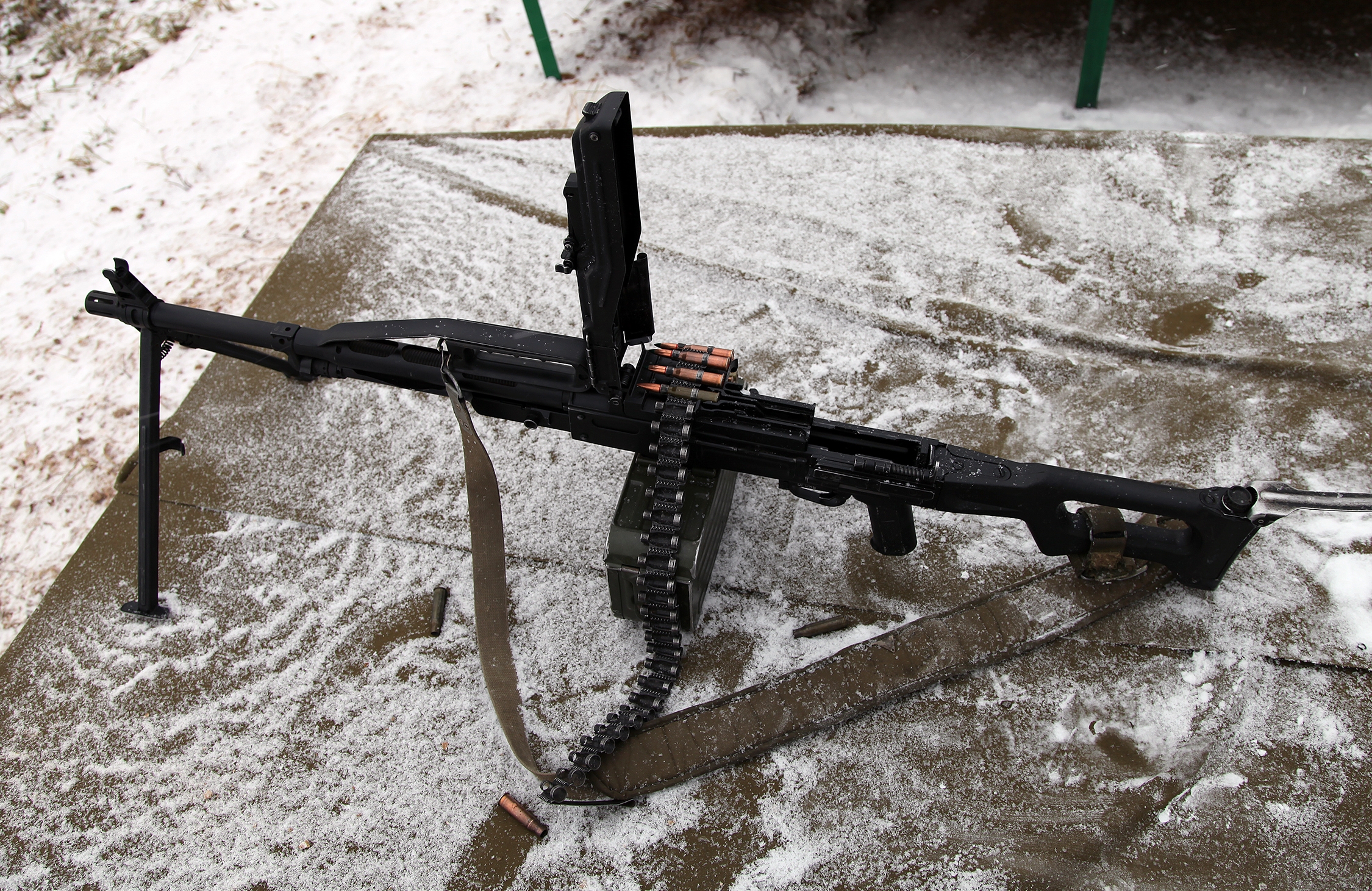 Pecheneg machine gun